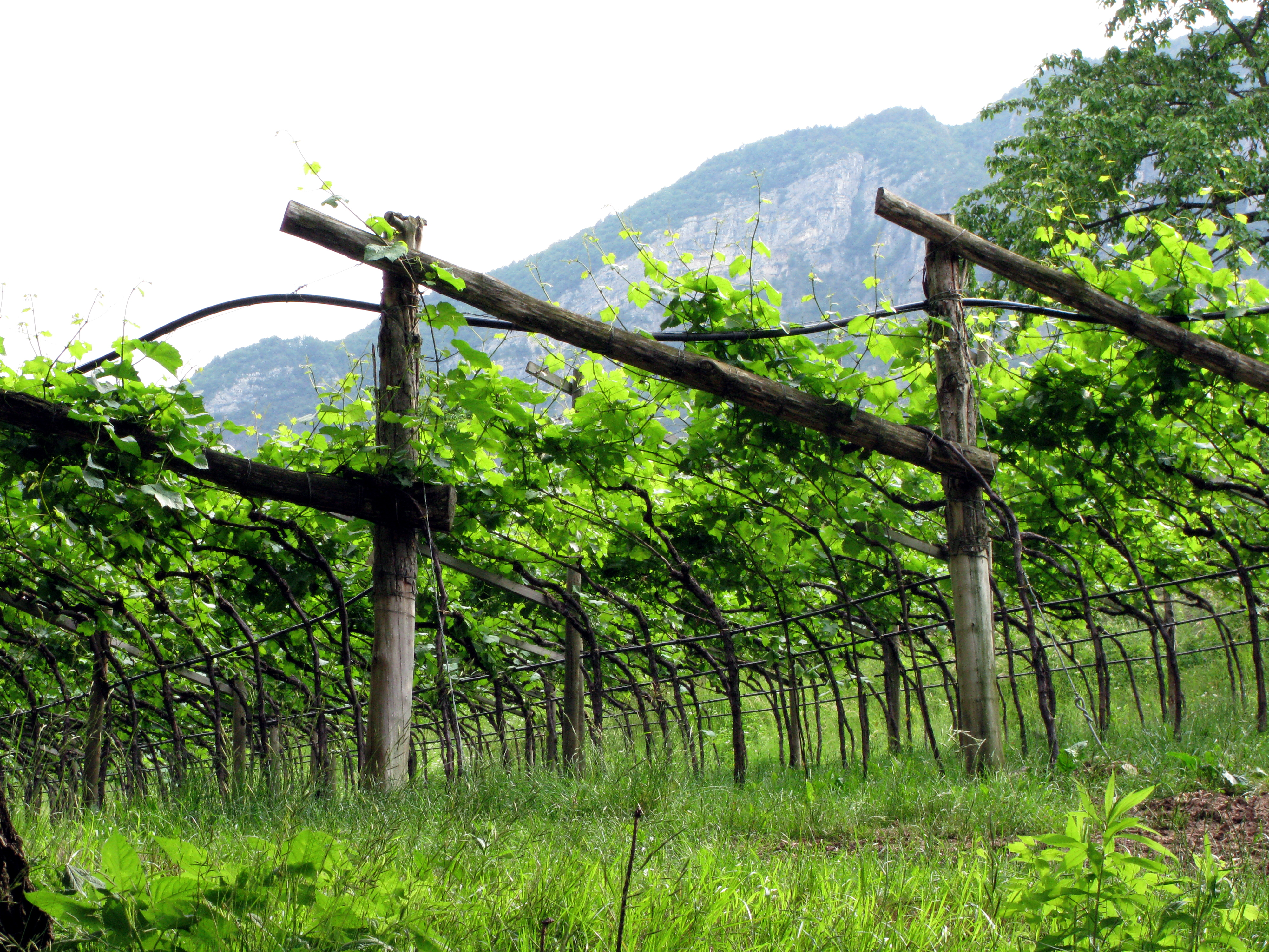 How grape vines are grown in Trentino, Italy